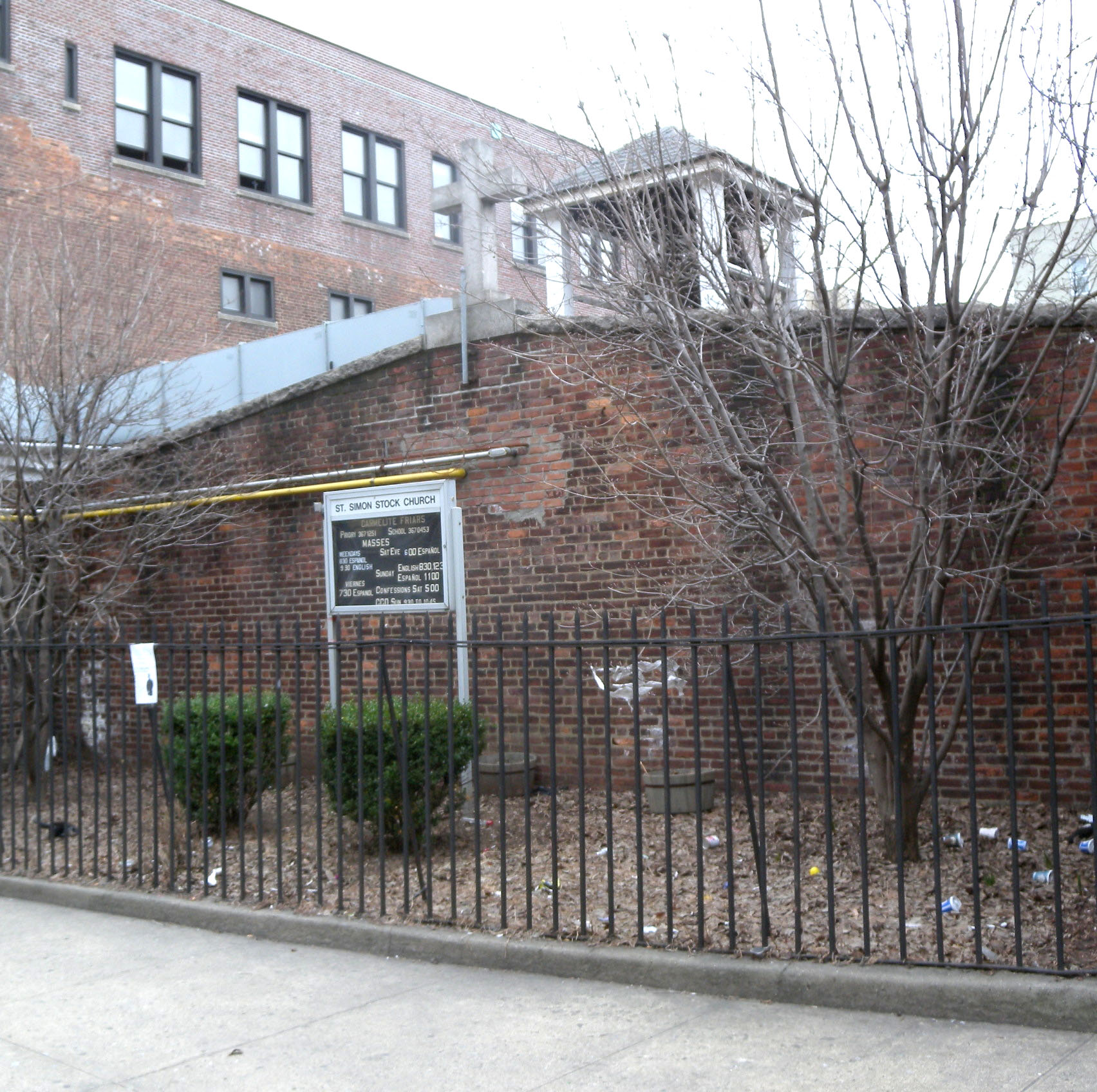 Looking southeast at St Simon Stock Catholic Church on a cloudy afternoon.